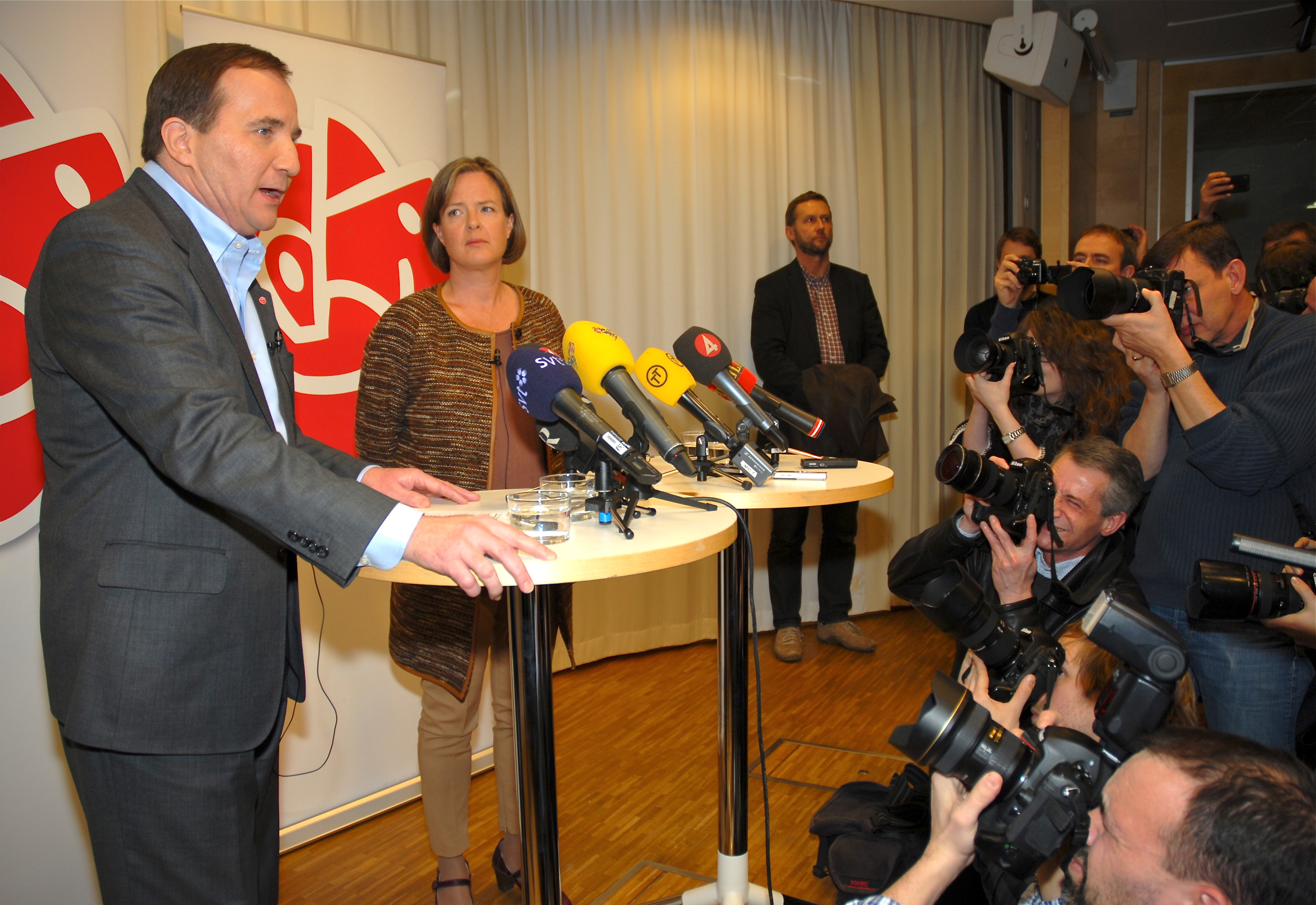 Party secretary Carin Jämtin informs in a press conference January 26, 2012 on Executive Committee's decision to recommend Stefan Löfven to the new leader of the Social Democrats.